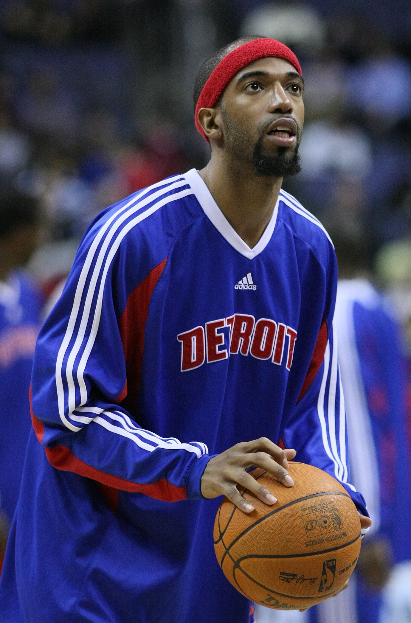 Richard Hamilton, of the National Basketball Association's Detroit Pistons, during a 2008 basketball game against the Washington Wizards.